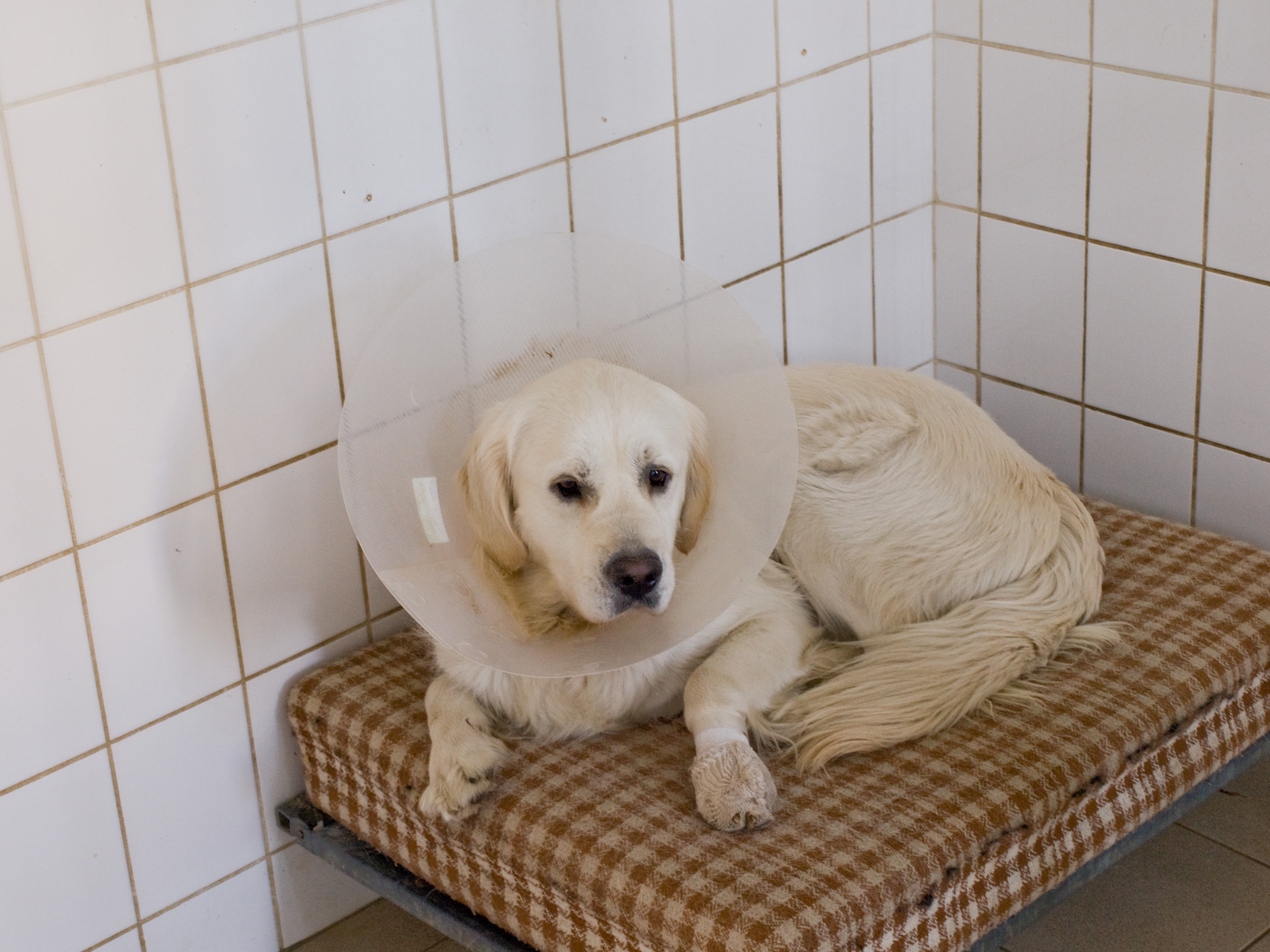 Labrador Retriever with hurt leg, Czech guide dog school Klikatá, Prague 5